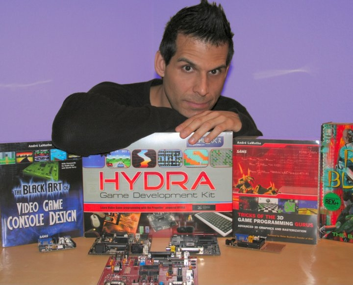 Andre LaMothe with some of his most notable works on Game Development and Hardware.